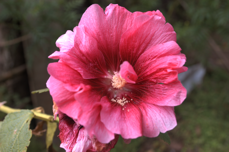 Flower of Malva in Neora Valley National Park.